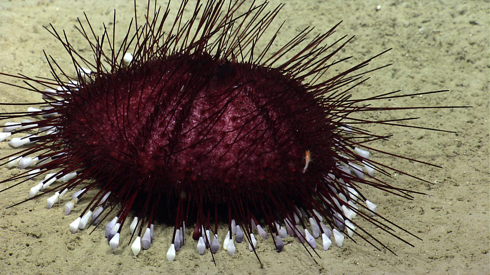 Sea urchin (order Echinothurioida, genus Hygrosoma, maybe Hygrosoma petersii). Image ID: expl9566, Voyage To Inner Space - Exploring the Seas With NOAA Collect Photo Date: 20130527T092455Z Credit: NOAA OKEANOS Explorer Program , 2013 Northeast U. S. Canyons Expedition